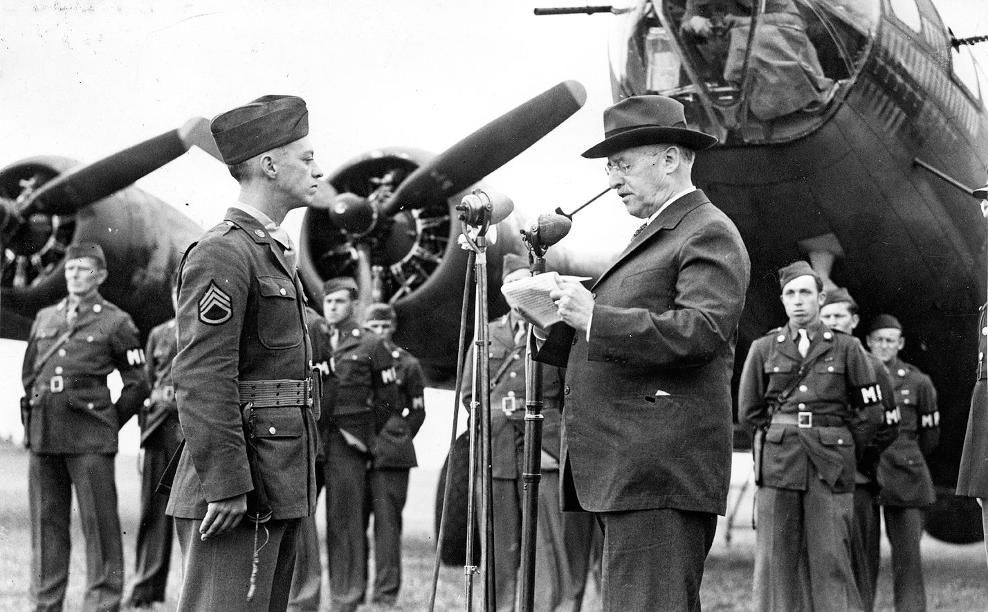 Staff Sergeant Maynard Smith of the 306th Bomb Group, is presented with the Medal of Honor by Secretary of War Henry L Stimson in front of a B-17 Flying Fortress. Passed for publication 16 Jul 1943. Printed caption on reverse: 'Highest American Award For Gunners. Mr. Stimson, U.S.A. War Minister, visited a Fortress Aerodrome in England, where he decorated S/Sgt. Maynard Smith, with the Congressional Medal of Honour, for conspicuous gallantry when he fought a fire when his plane caught fire during a raid on St. Nazaire. Photo shows:- Mr. Stimson reading the Citation with S/Sgt. Maynard standing before him. Supplied L.N.A. A.35956.' On reverse: US Army Press Censor ETO and US Army General Section Press & Censorship Bureau [Stamps].